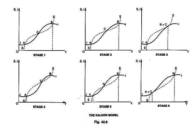 Kaldor business cycle part 3